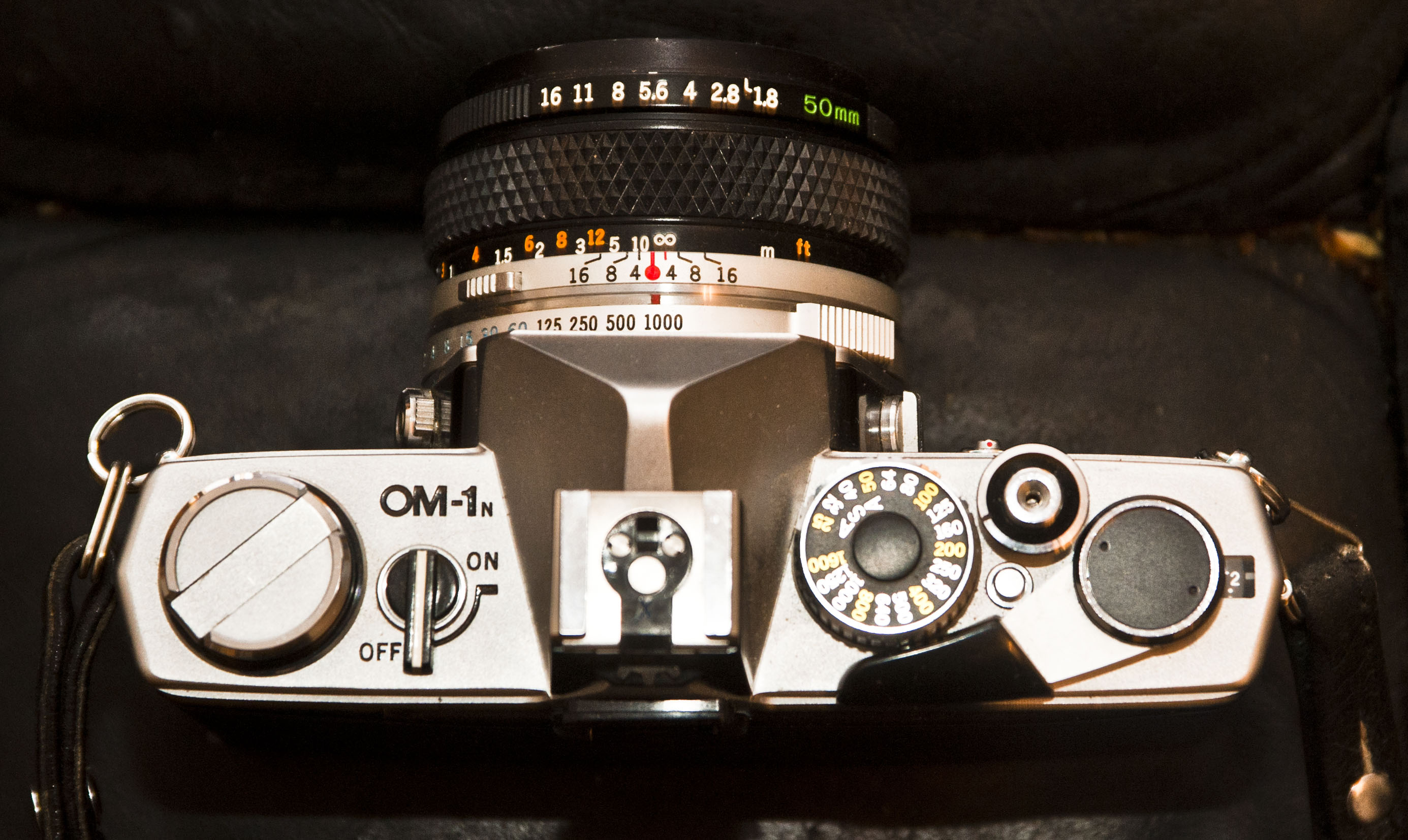 Olympus om1 upside